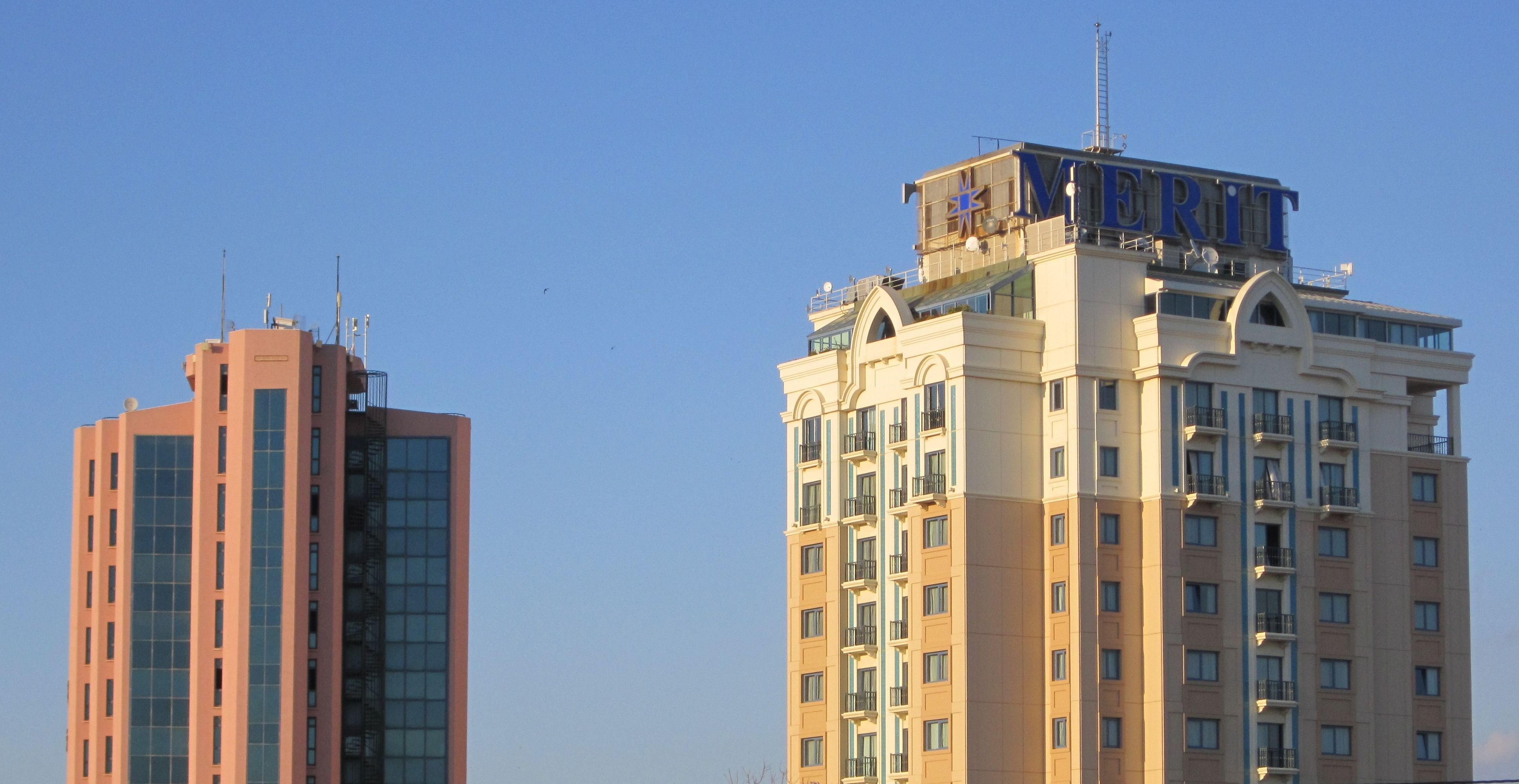 Tall buildings in North Nicosia. On the left, a building used for business purposes (as of 2012, used by the company of YAR). On the right, the Merit Hotel. The two buildings are located on the Bedrettin Demirel Avenue.